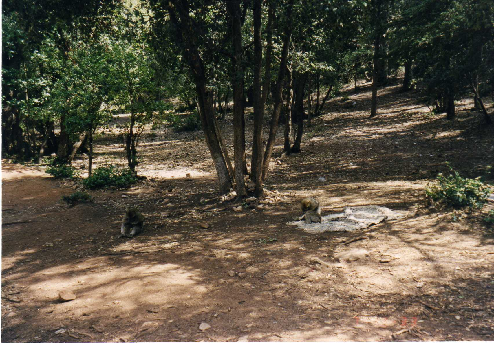 Barbary Macaques in a forest outside Ifrane, Morrocco Picture from my private archive taken in 2000